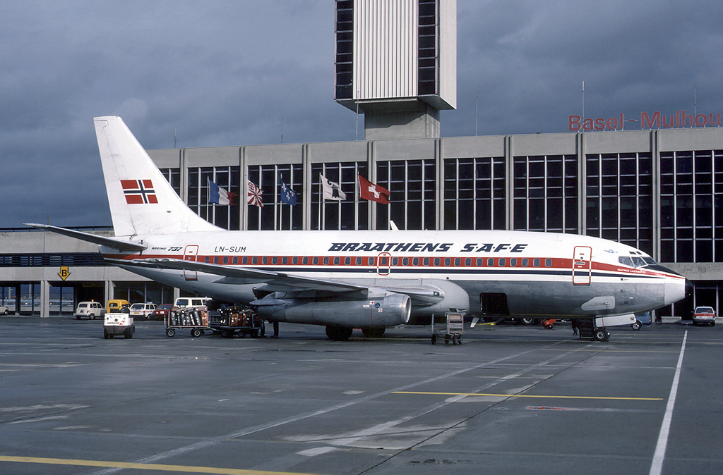 Braathens Boeing 737-200 at Basel Airport in December 1984